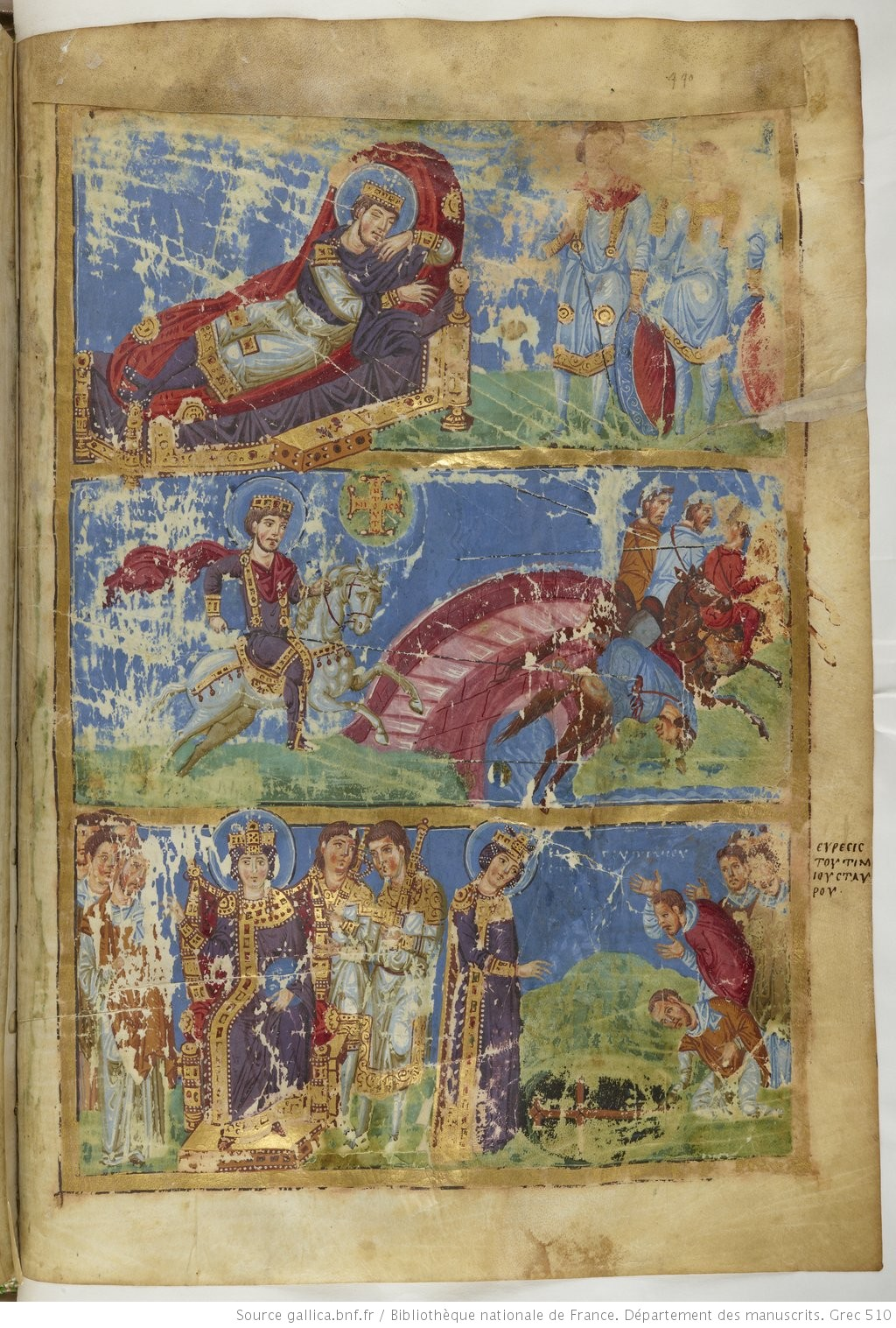 Homilies of Grégory de Nazianzus (BnF MS grec 510), folio 355. Dream of Constantine I and battle of the Milvian bridge.